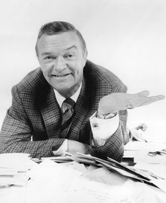 Publicity photo of television game show host Bob Clayton.